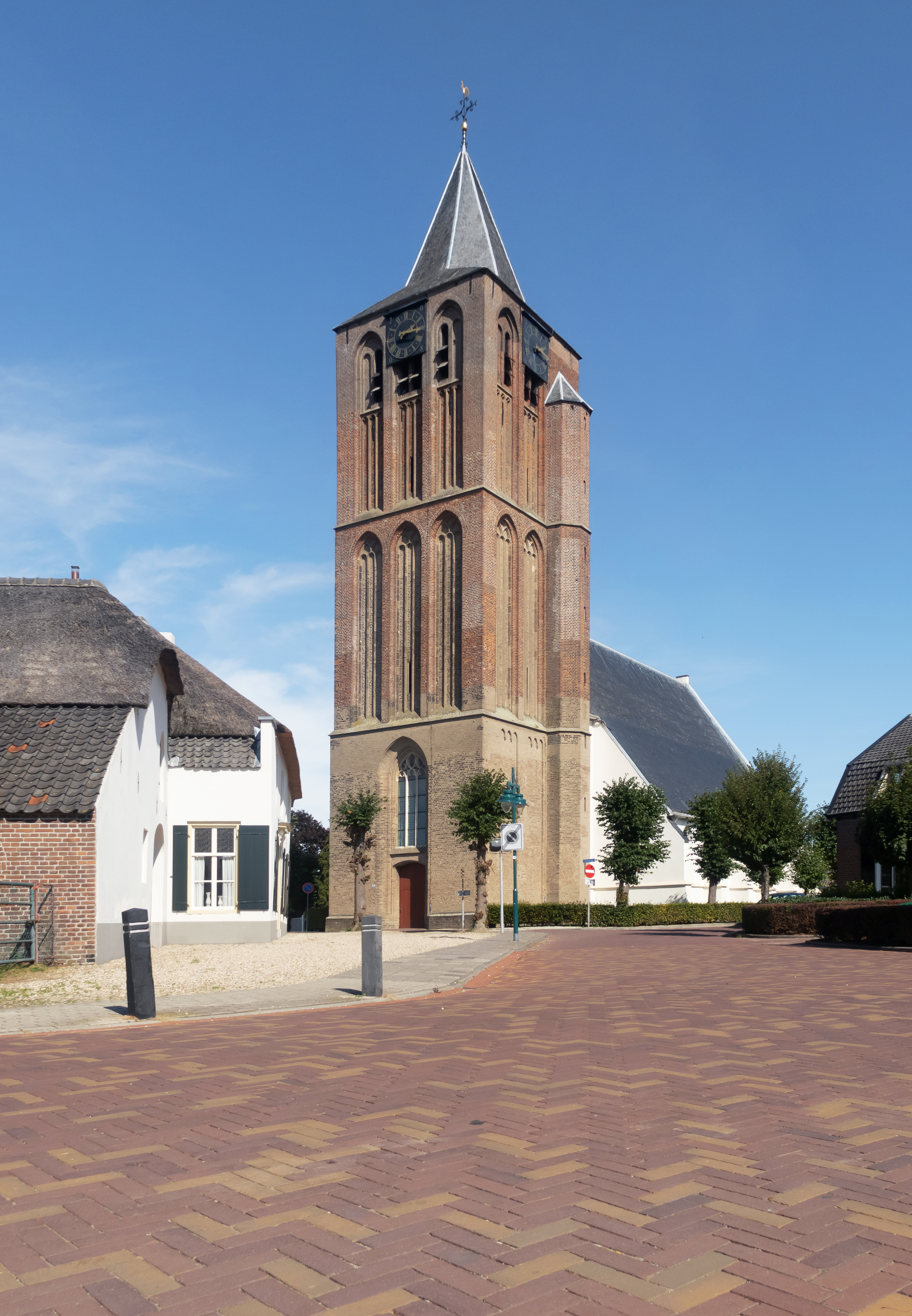 Lienden, church: de Maagd Maria